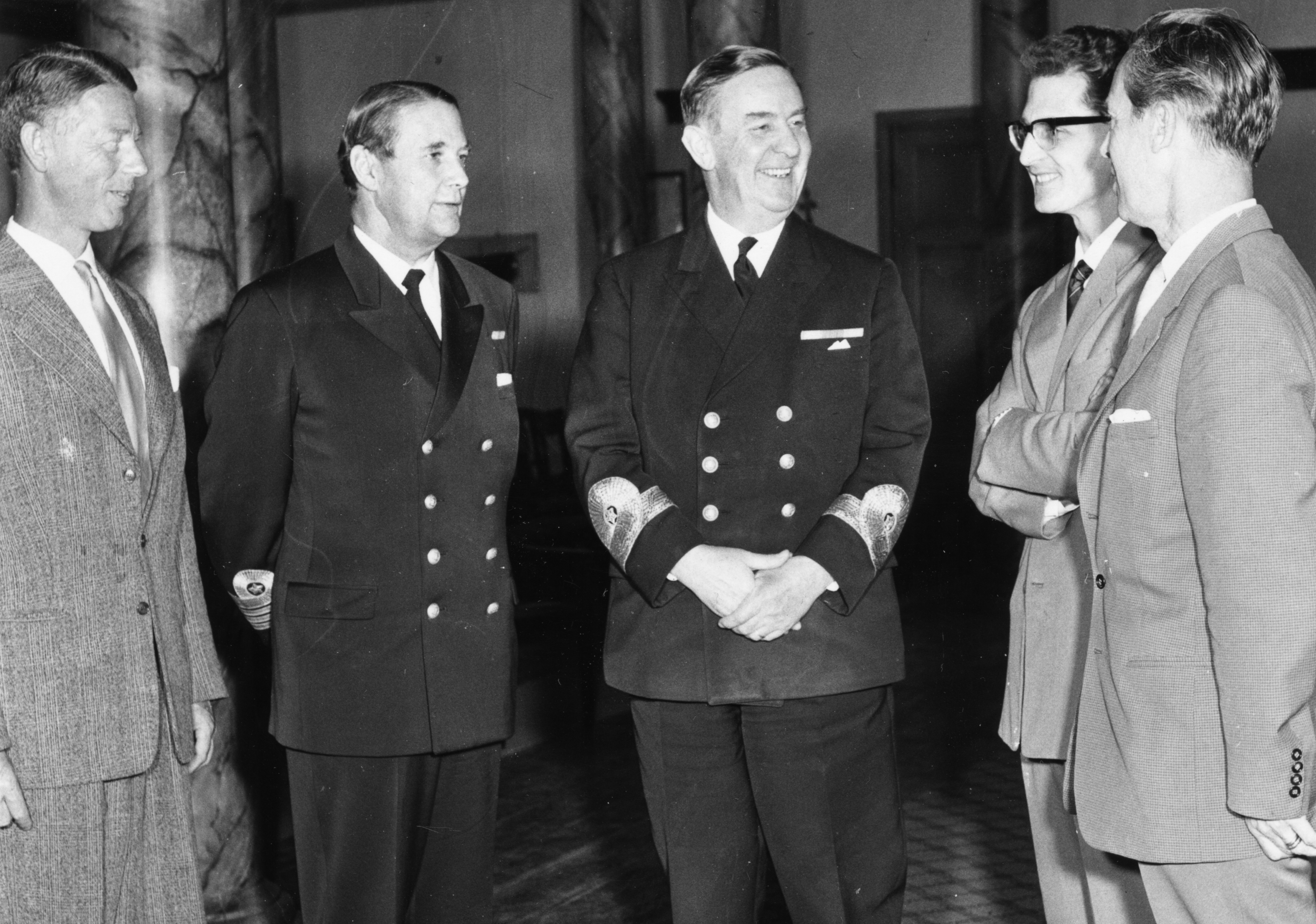 Director Johan Schreil, commander (later rear admiral in 1963) Stig Bergelin, rear admiral (later vice admiral in 1968) Sigurd Lagerman, Bertil Christell and Bo Eng.